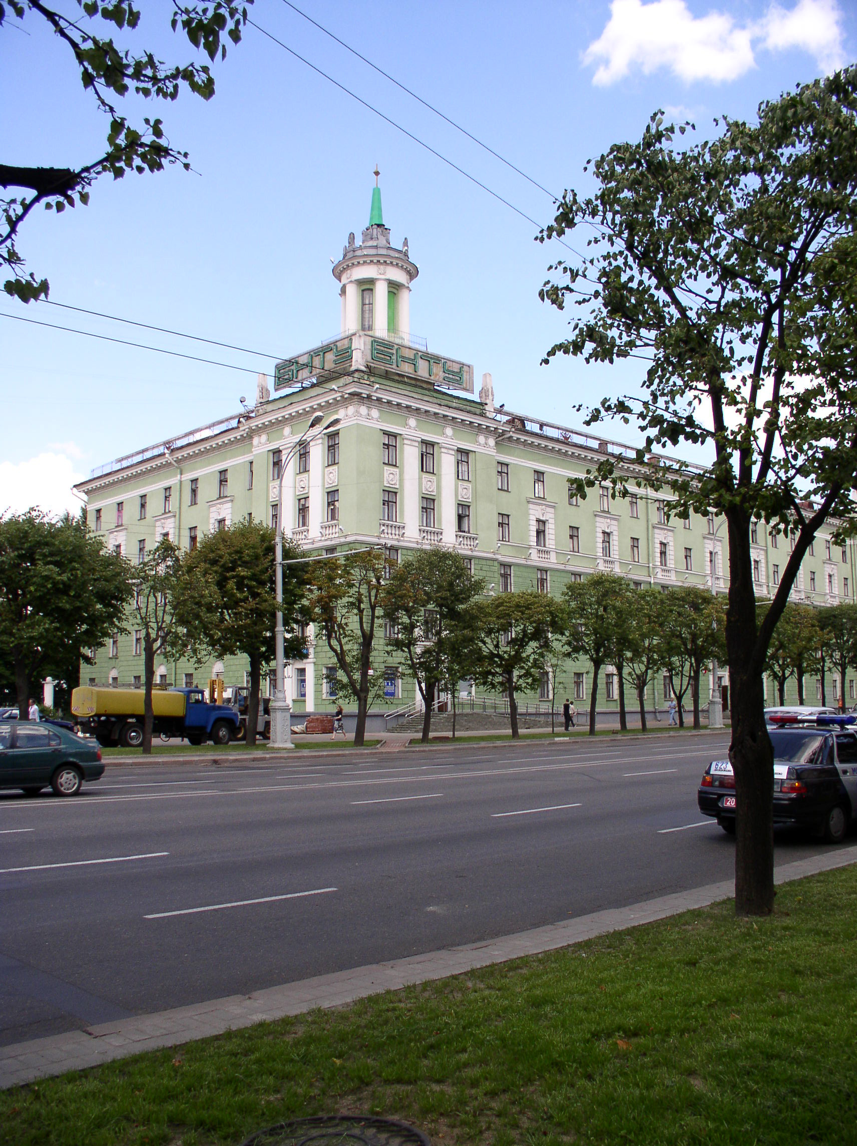 Belarusian National Technical University, Minsk, Belarus.